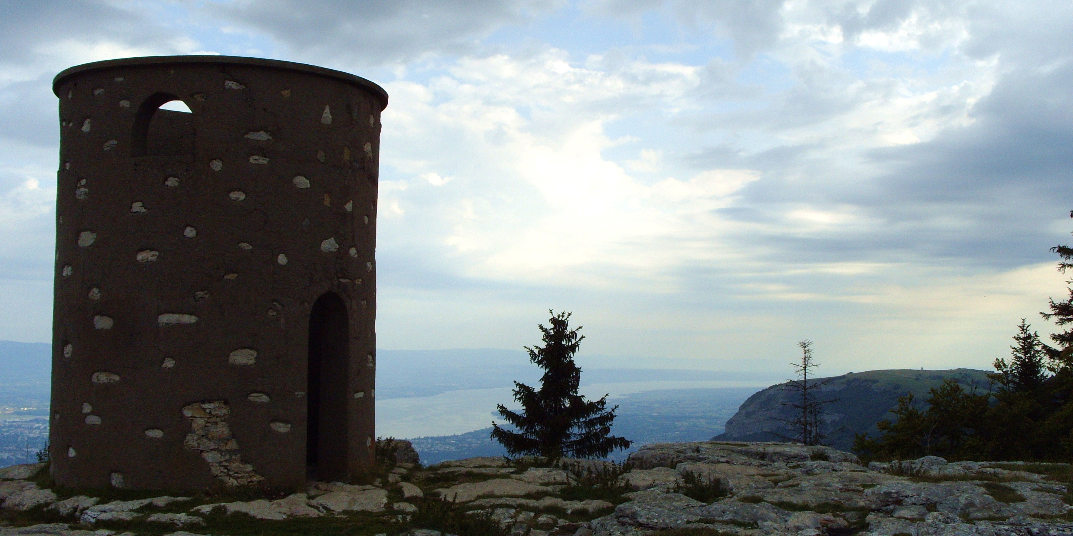 The Pitons Tower, highest point of Mount Salève, historical roman building (1379m)